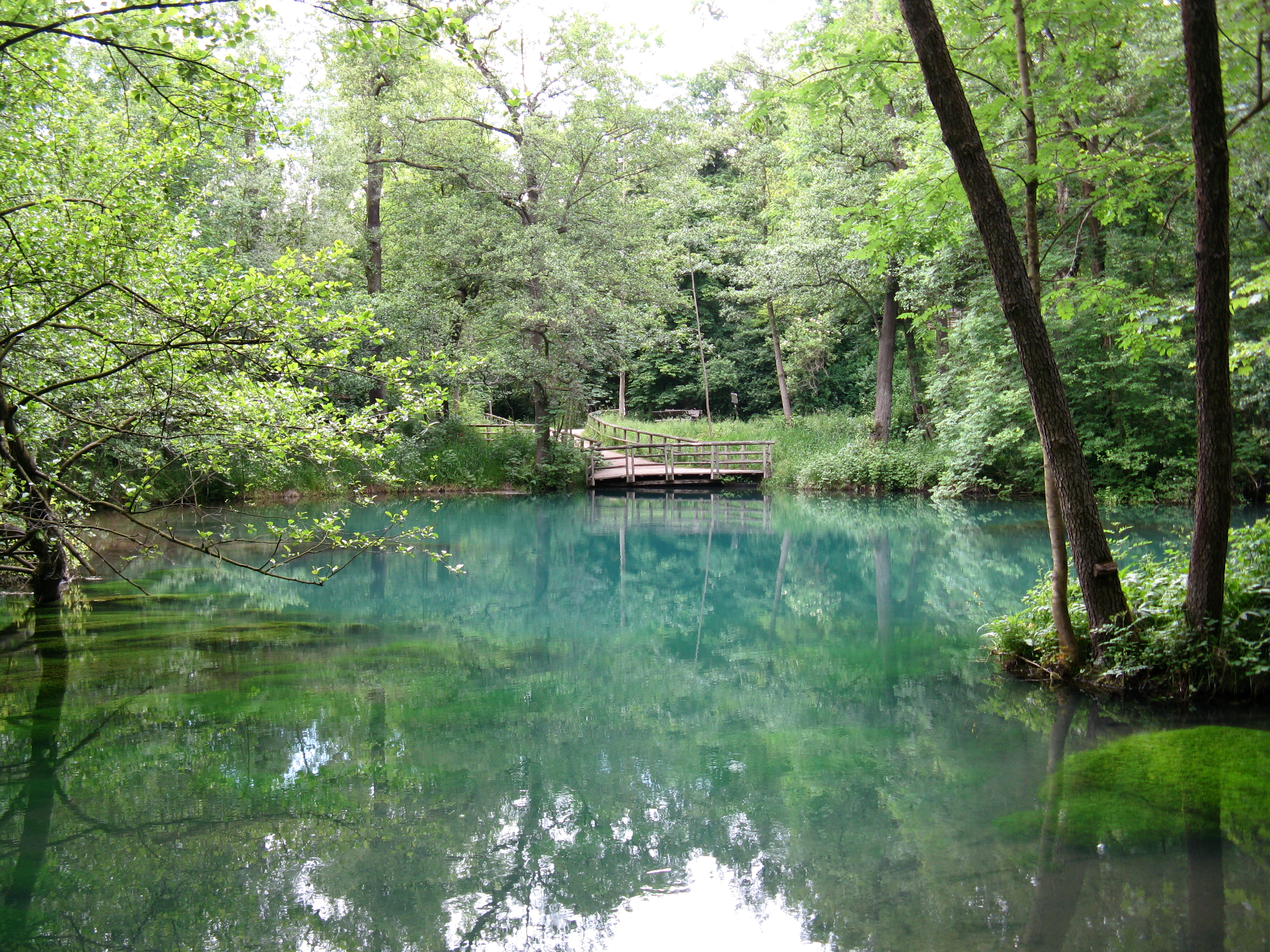 karst spring of river Rhume in Lower Saxony, Germany